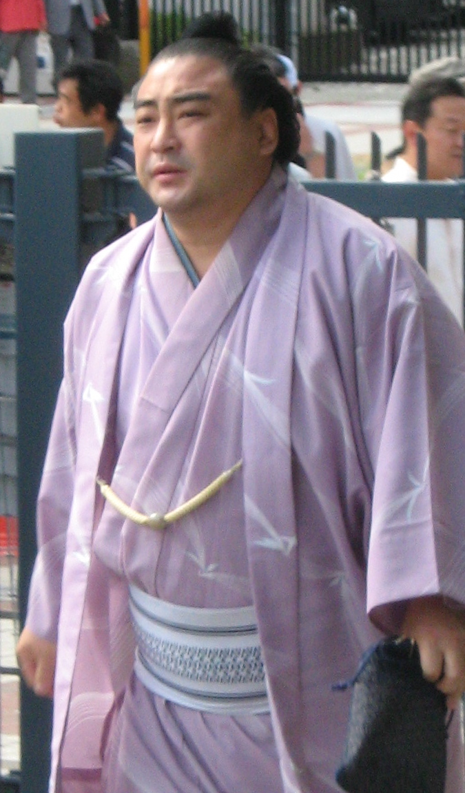 Taken outside Sep 2008 tournament